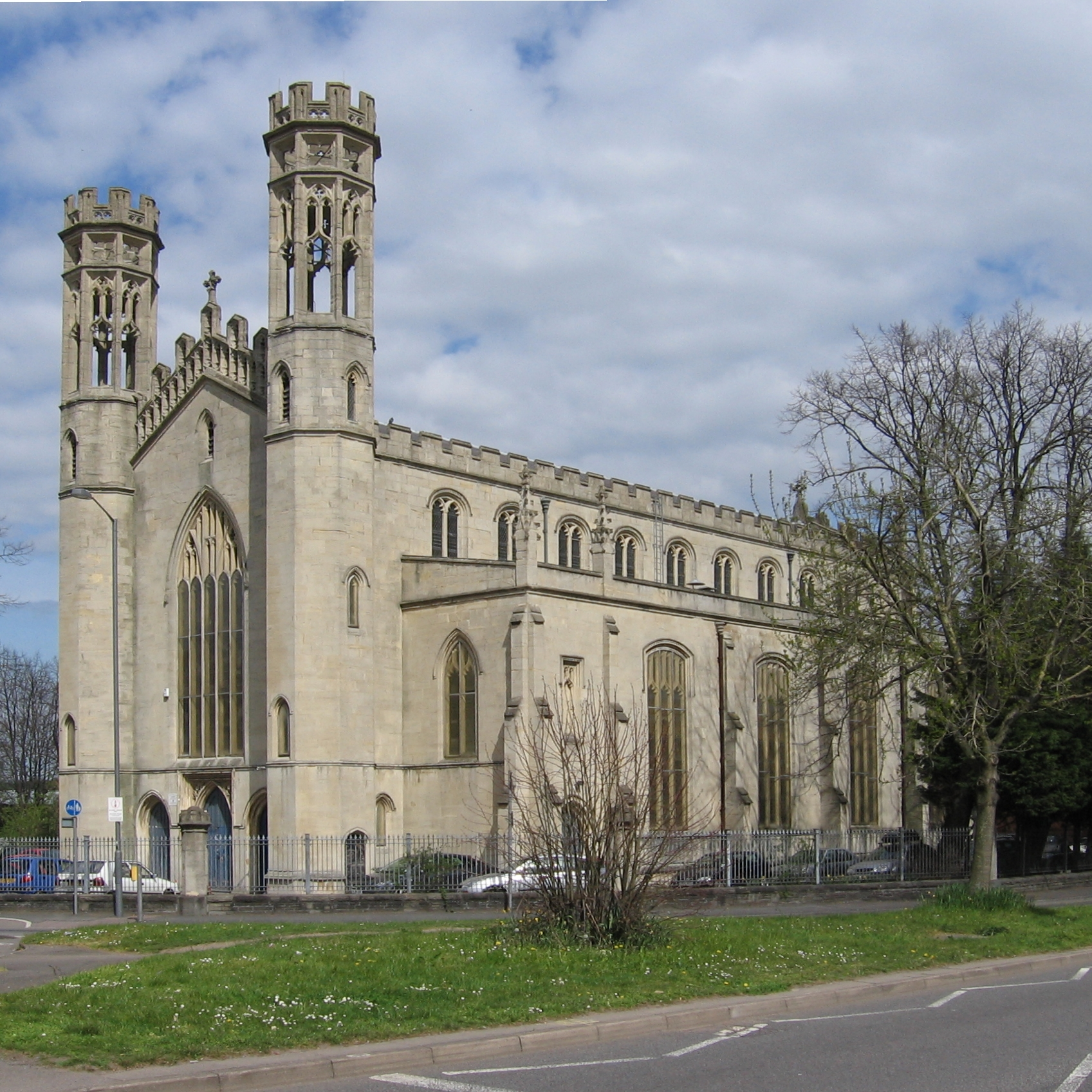 The Trinity Centre (formerly Holy Trinity parish church), Lawrence Hill, Bristol, England, seen from the southwest